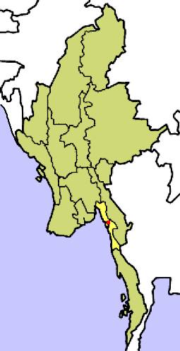 Location of Mon State in Myanmar w/ capital.